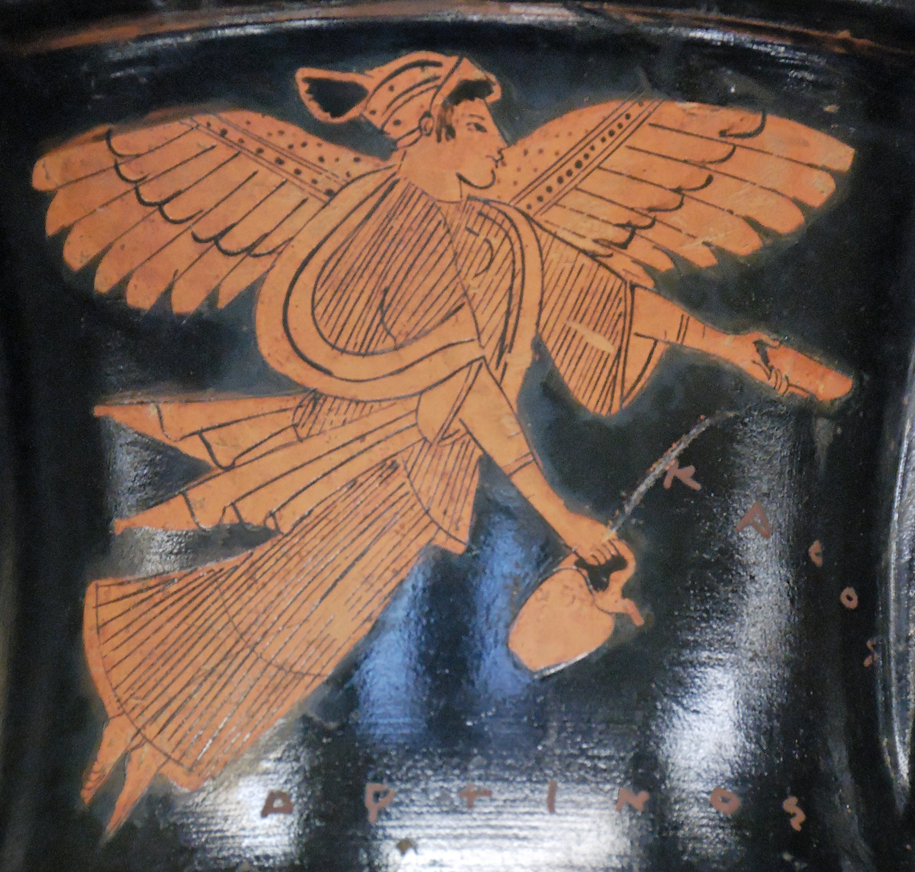 Nike, with kalos inscription. Side A of the neck of an Attic red-figure neck-amphora, ca. 470 BC. From Athens.